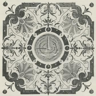 Garden plan - French parterre